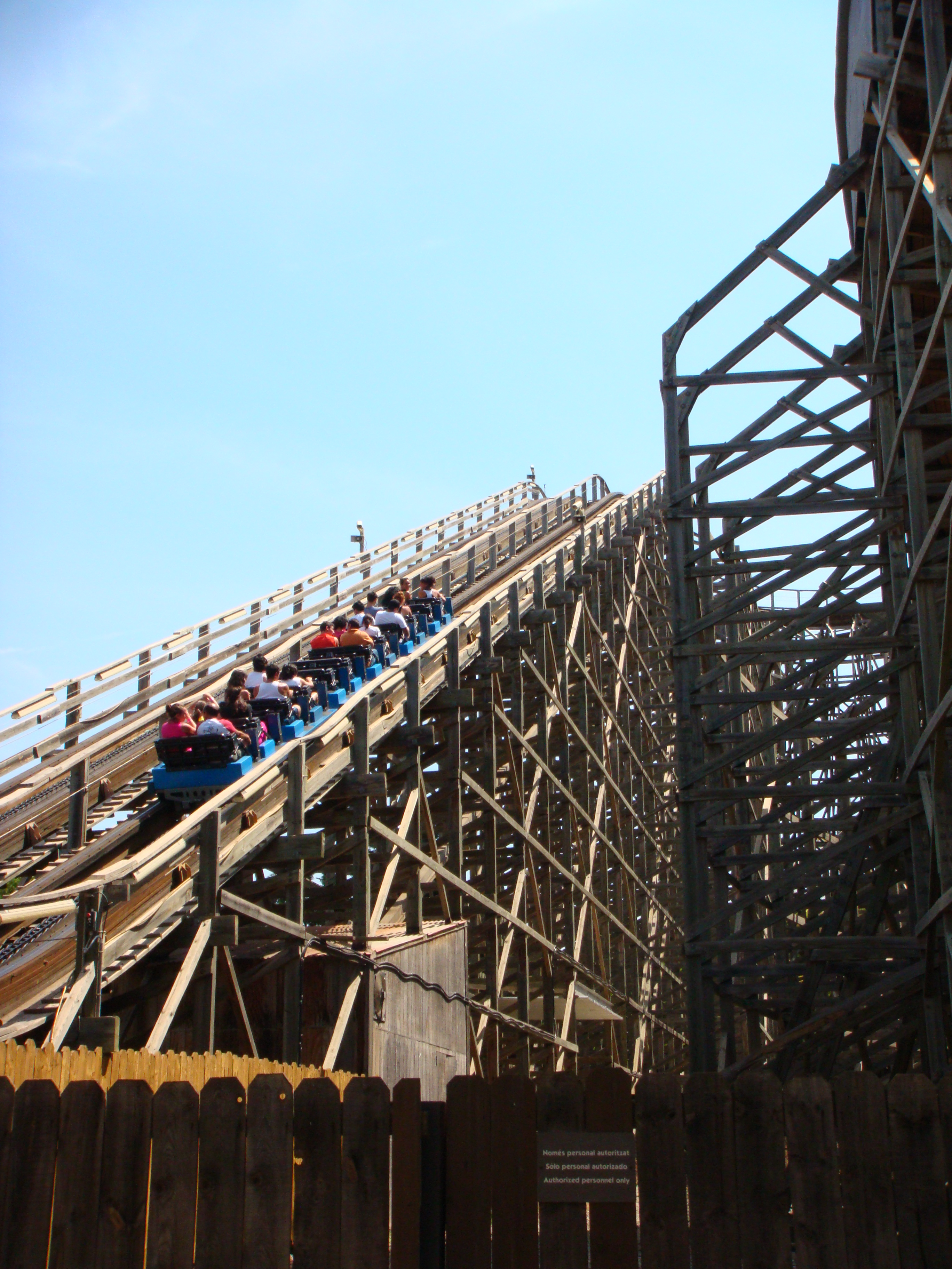 Going up Stampida in Port Aventura